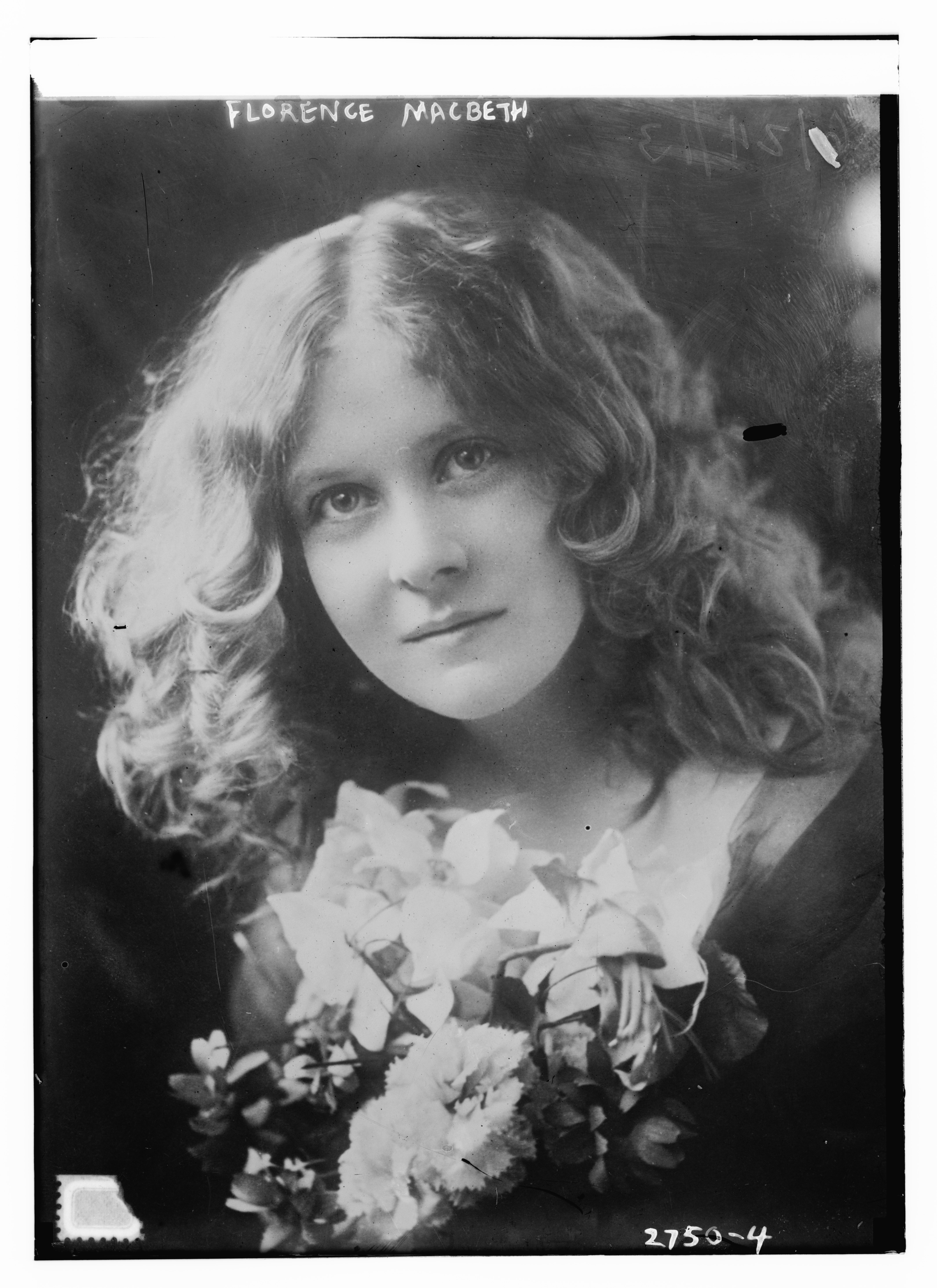 Title: Florence MacBeth Abstract/medium: 1 negative : glass ; 5 x 7 in. or smaller.